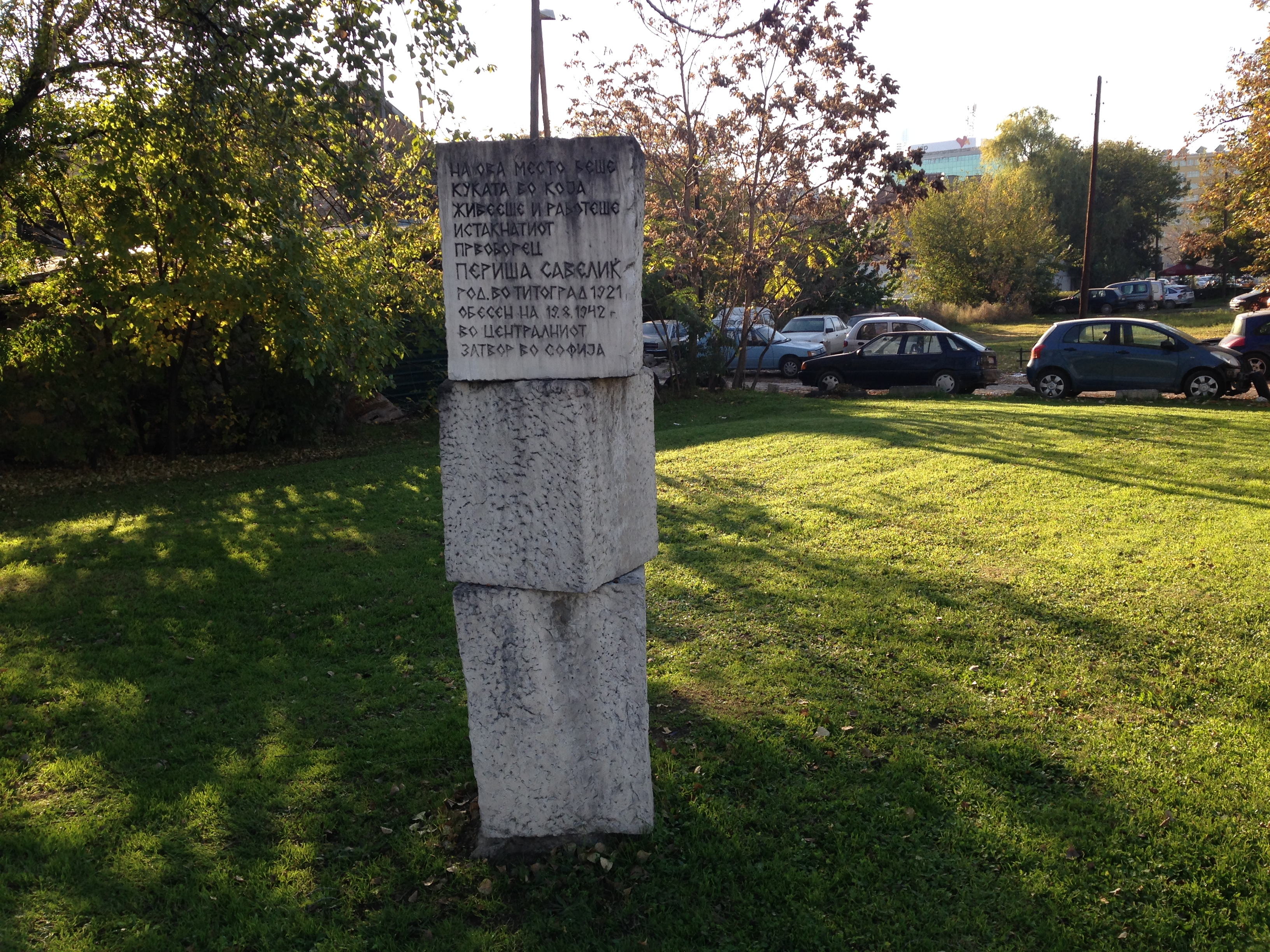 Monument on the spot of the house of Perisa Savelic in Skopje